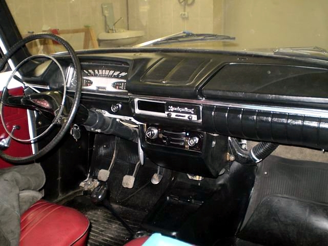 AZLK Moskvitch-412IE, interior view